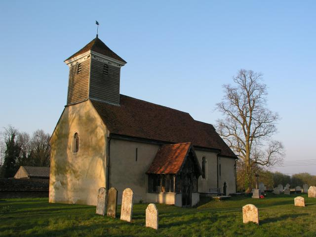 Parish church of St Mary the Virgin, Wissington, Suffolk, England, seen from the southwest